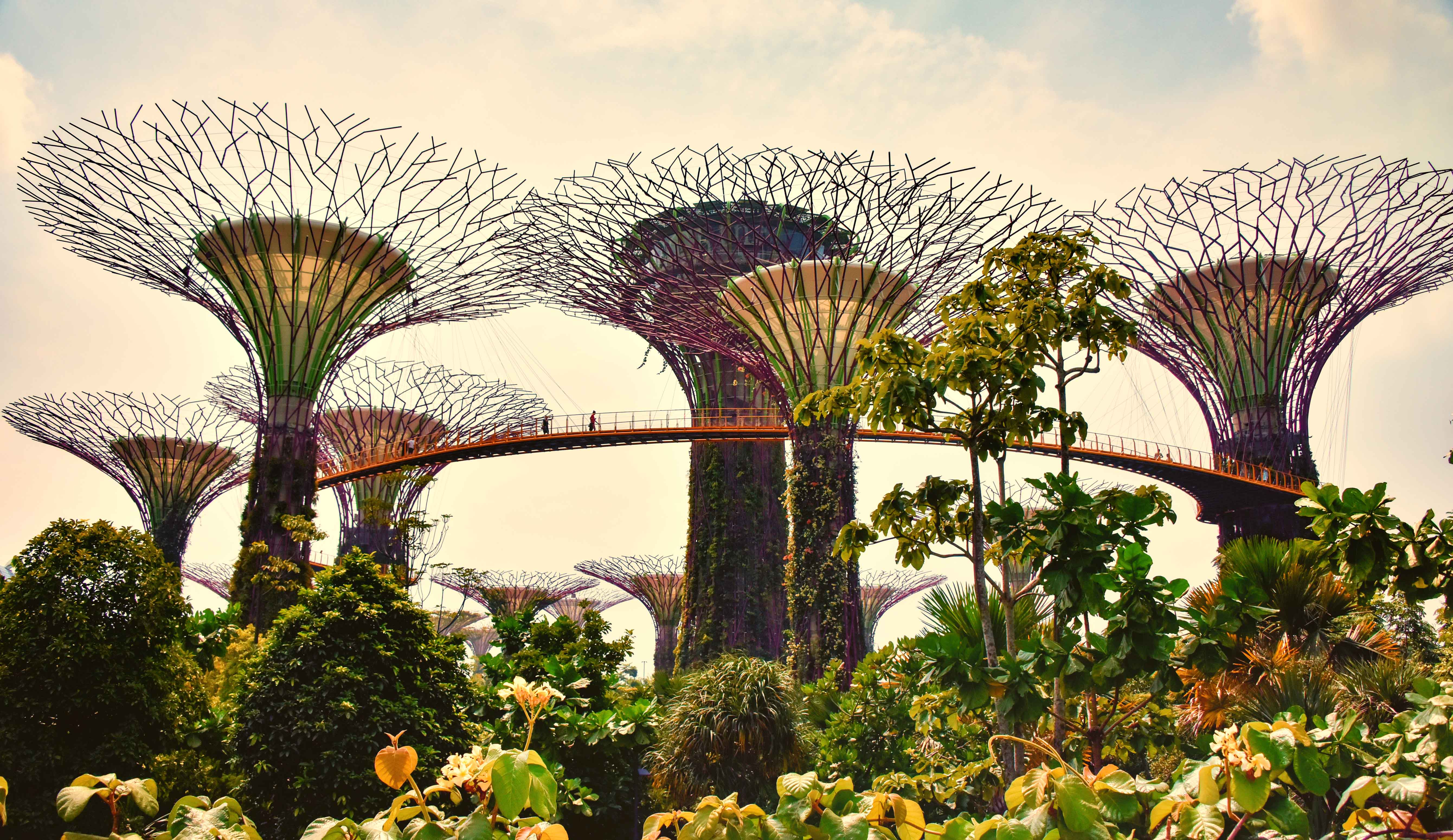 Singapore